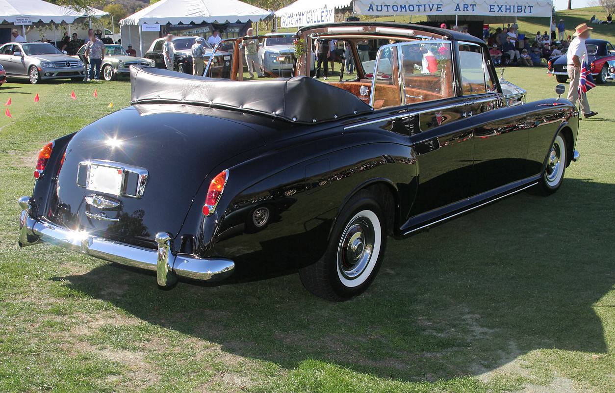 1966 Rolls Royce Phantom V State Landaulette at Newport Beach, CA, Concours d'Elegance, Strawberry Farms, Oct 9, 2007